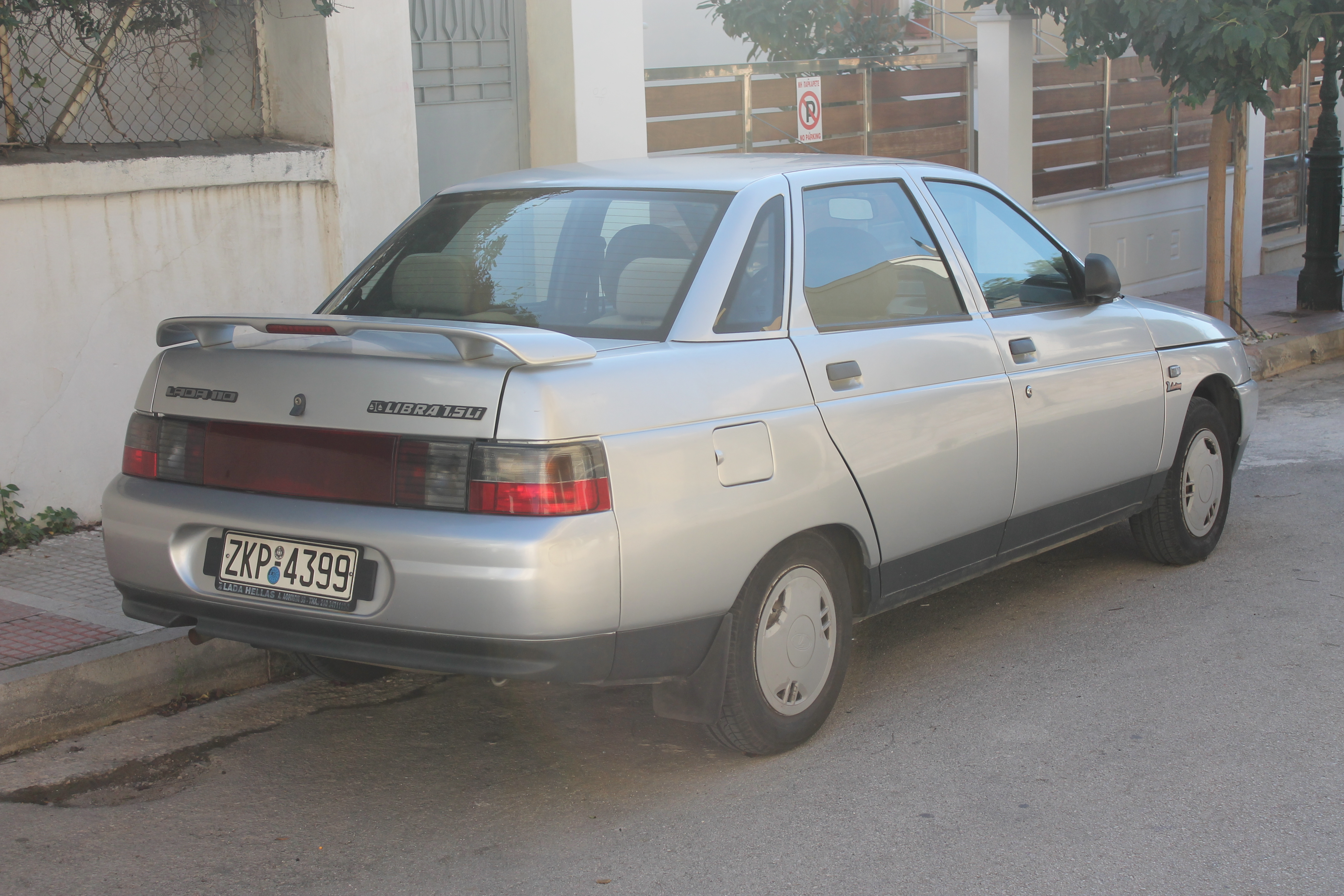 These have some of the worst styling I've ever seen. I suppose this is what you expect in early post-Soviet Russia. Never seen one before, and unlikely to again, unless I visit Russia. Don't believe there are any in the UK, as far as I know... These were produced from 1995 to 2007, but this one is pre-2003, as that's when the new number plate style came in. Looking on the Wiki page, it only mentions a 1.6 model, so is this 1.5 something more unusual? It says Lada Anniversary on the side below the indicator light- this may give an indication of its date. These just look all wrong to me!!! Look at the gap under the bonnet... Credit to its owner though, it's one of the tidiest cars I've seen in Greece!